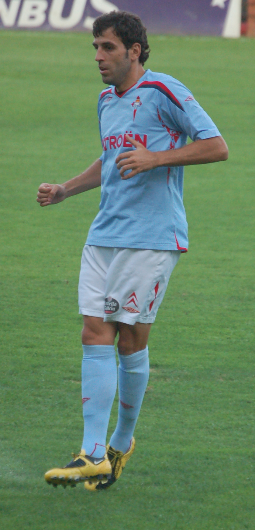 Roberto Trashorras in City of Pontevedra Thophy 2009